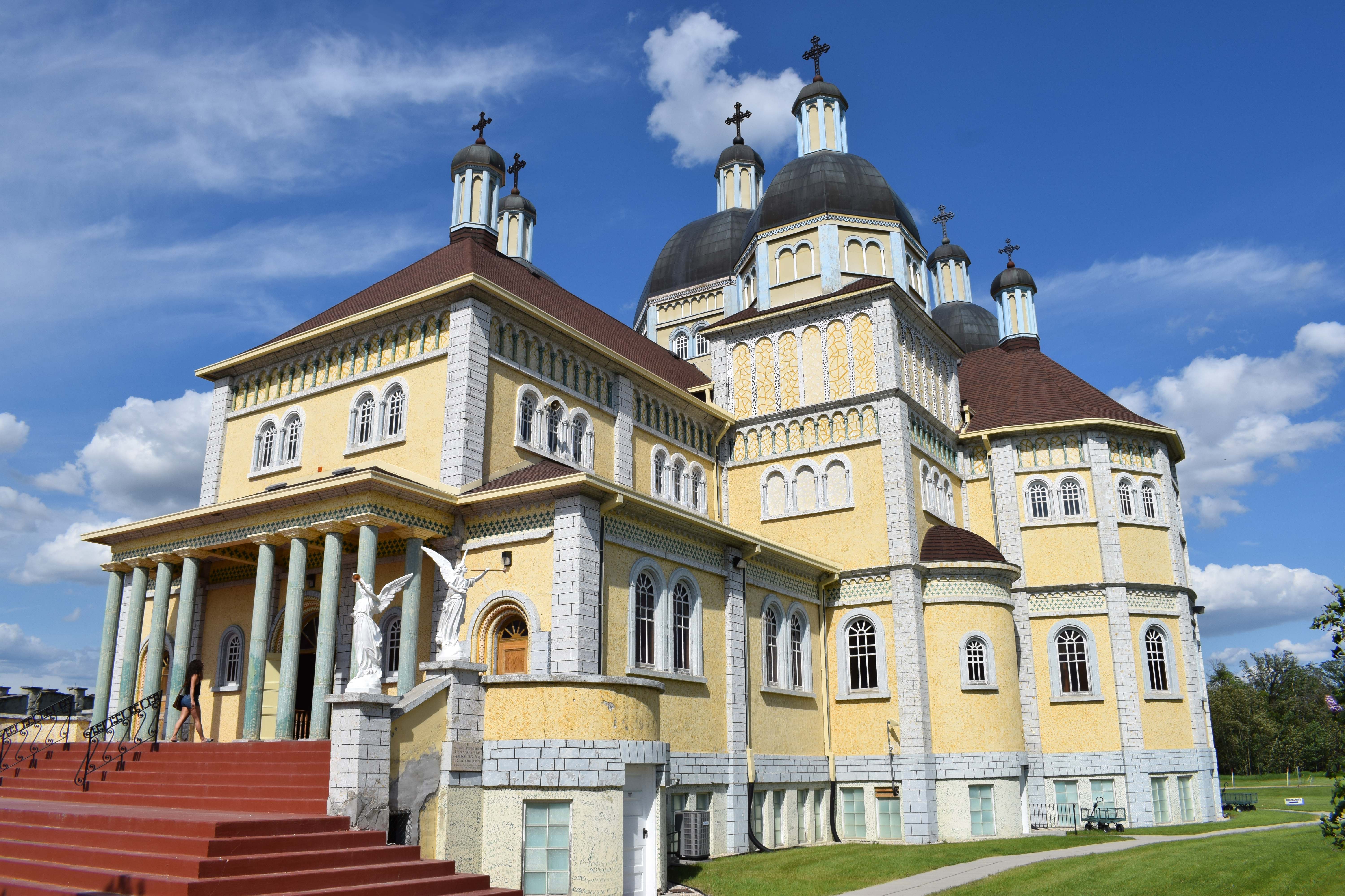 The Ukrainian Catholic Church of the Immaculate Conception in Cooks Creek Manitoba. The church's construction was begun in 1930 by famed architect, Philip Ruhr, and was consecrated 22 years late in 1952. The church was mostly built with volunteer labour and materials. Ruhr passed away before the completion and he was buried in the church's cemetery.